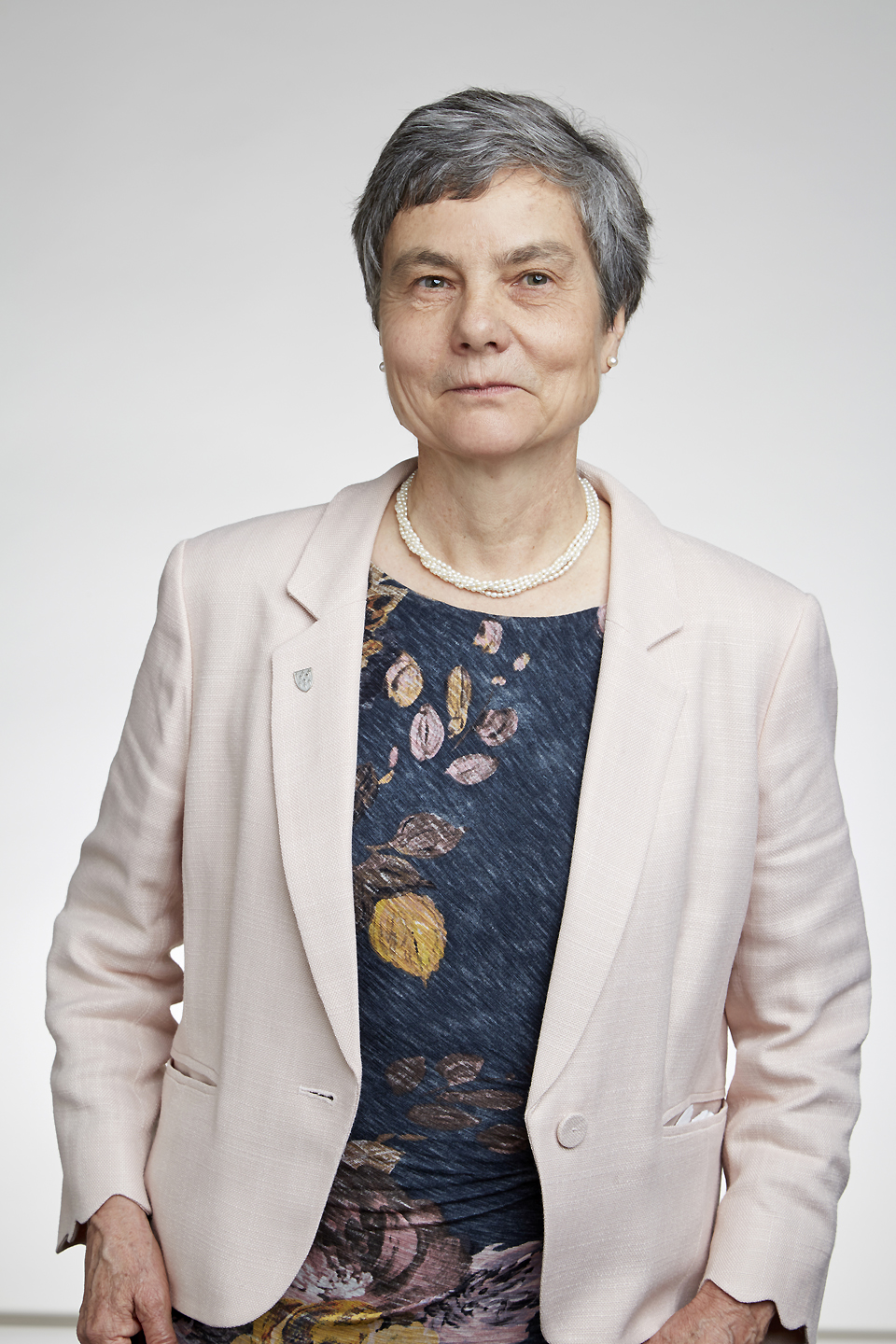 Caroline Mary Series FRS (born 1951) is an English mathematician known for her work in hyperbolic geometry, Kleinian groups and dynamical systems. Attribution: The Royal Society